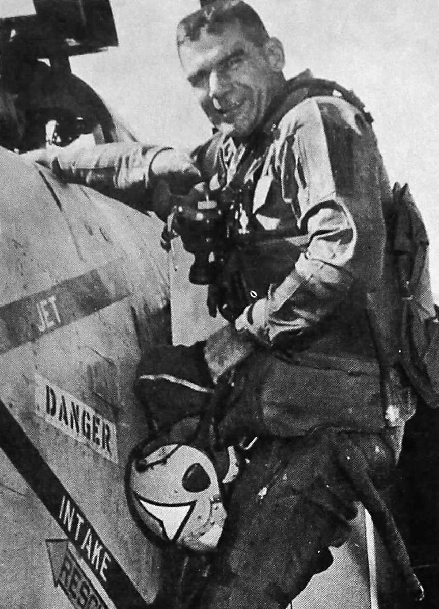 Commander Alexander G.B. Grosvenor, U.S. Navy, commanding officer of Fighter Squadron 21 (VF-21) "Freelancers" stands on one of the squadron's McDonnell F-4B Phantom II aboard the aircraft carrier USS Ranger (CVA-61). VF-21 was assigned to Attack Carrier Air Wing 2 (CVW-2) aboard the Ranger for a deployment to the Western Pacific and Vietnam from 4 November 1967 to 25 May 1968.